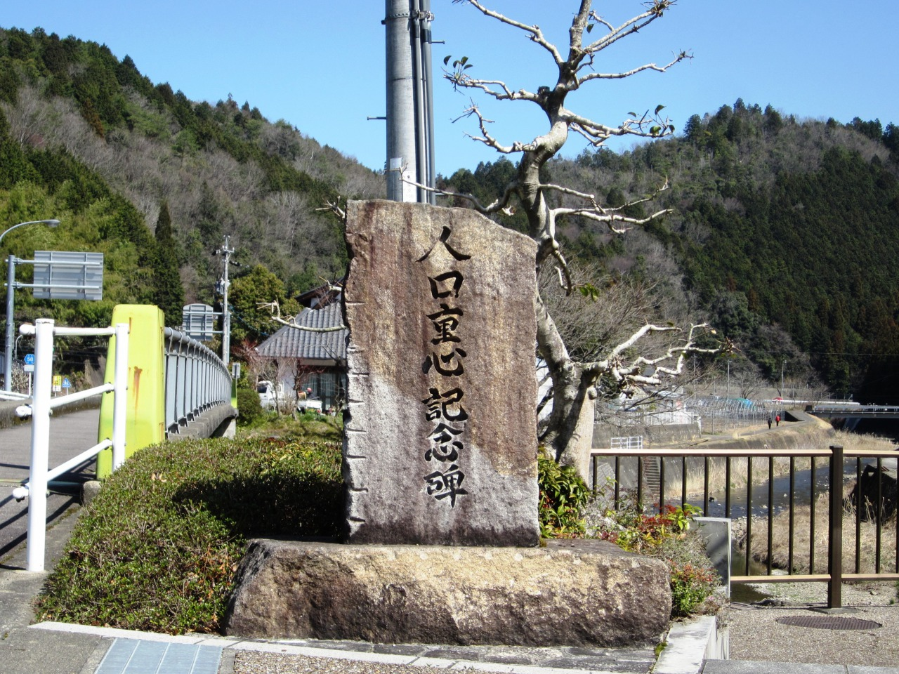 Center of population monument in Seki, Gifu.